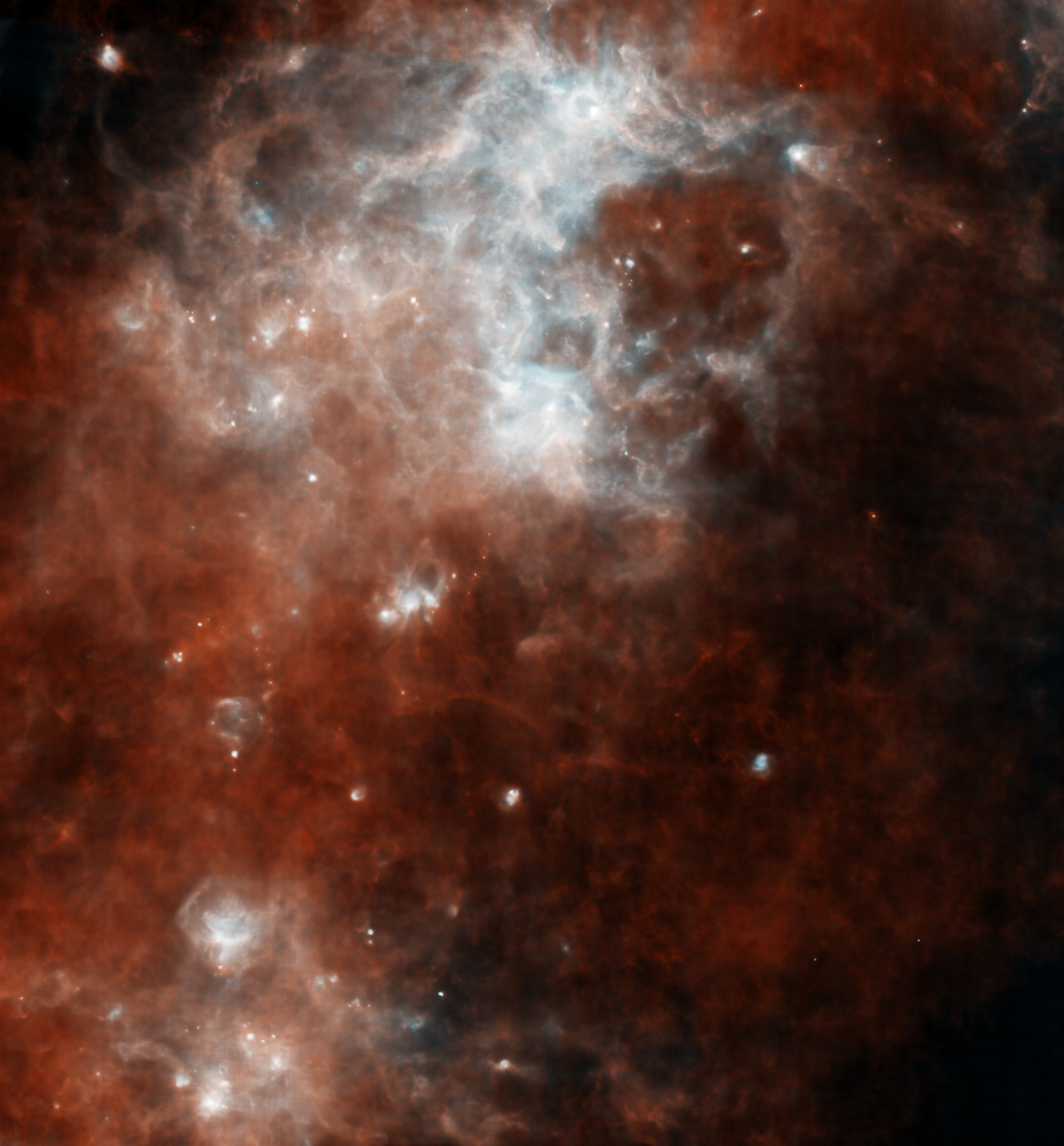 This image from the Herschel Observatory reveals some of the coldest and darkest material in our galaxy. The choppy clouds of gas and dust are just starting to condense into new stars. Blue shows the warmest dust pictured, and red the coolest. Infrared light with a wavelength of 70 microns is depicted in blue, and 160-micron light is in red. Much of this region of the galaxy would be hidden in visible-light views. The area pictured is in the plane of our Milky Way galaxy, 60 degrees from the center. It spans a region 2.1 by 2.1 degrees. This image was taken by Herschel's spectral and photometric imaging receiver. Herschel is a European Space Agency mission with important participation from NASA.